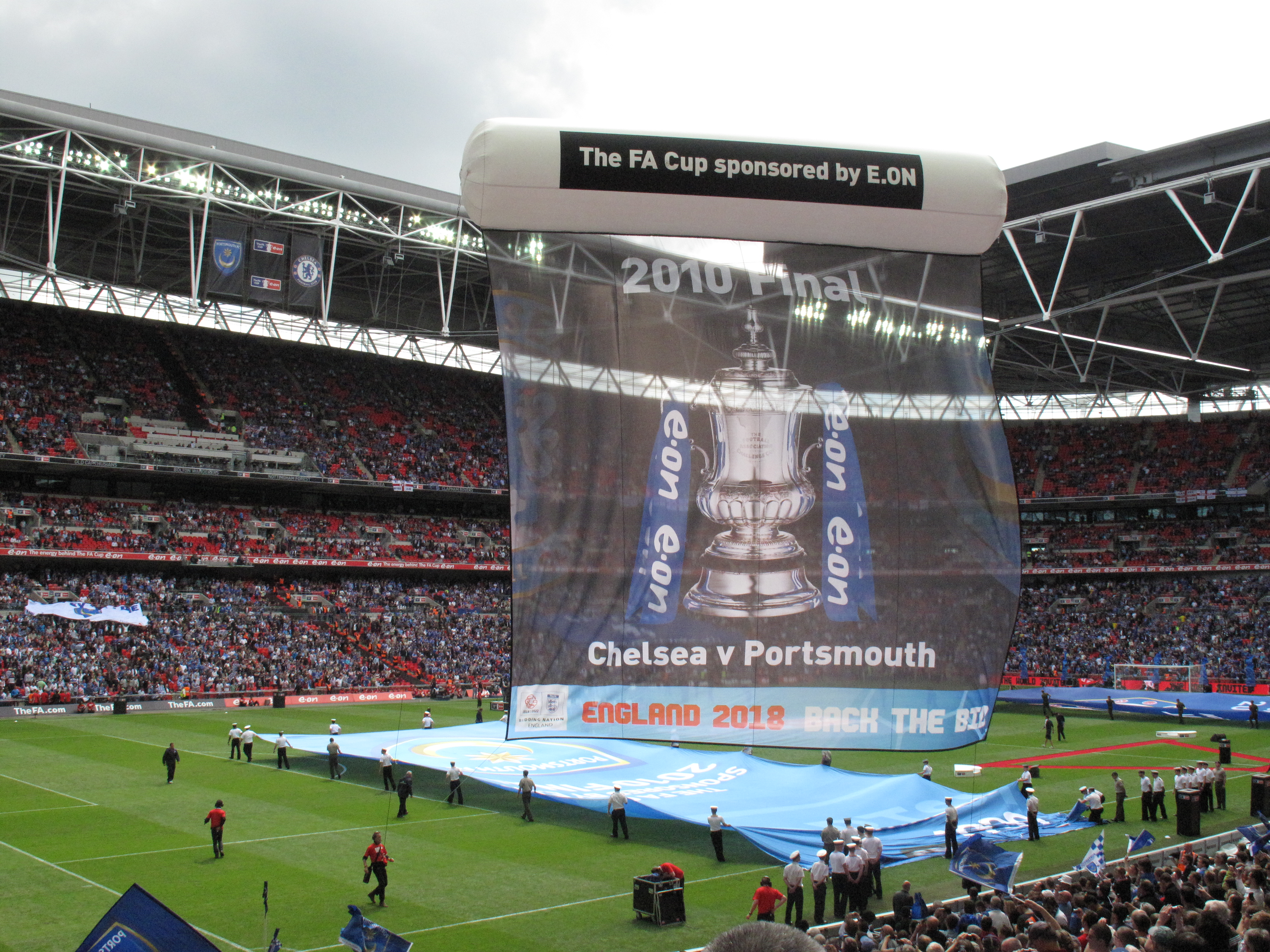 Banner shown before the 2010 FA CUp Final